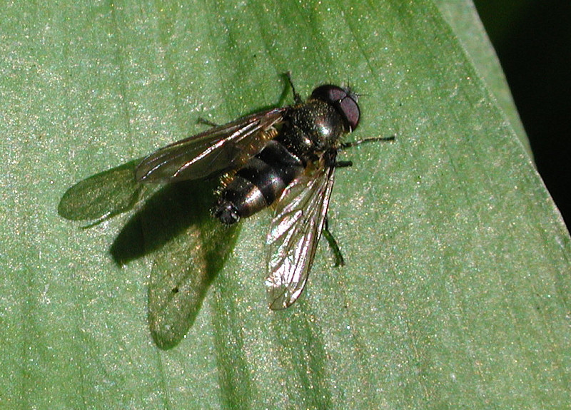 Cheilosia fasciata, Frankfurt/M., Germany